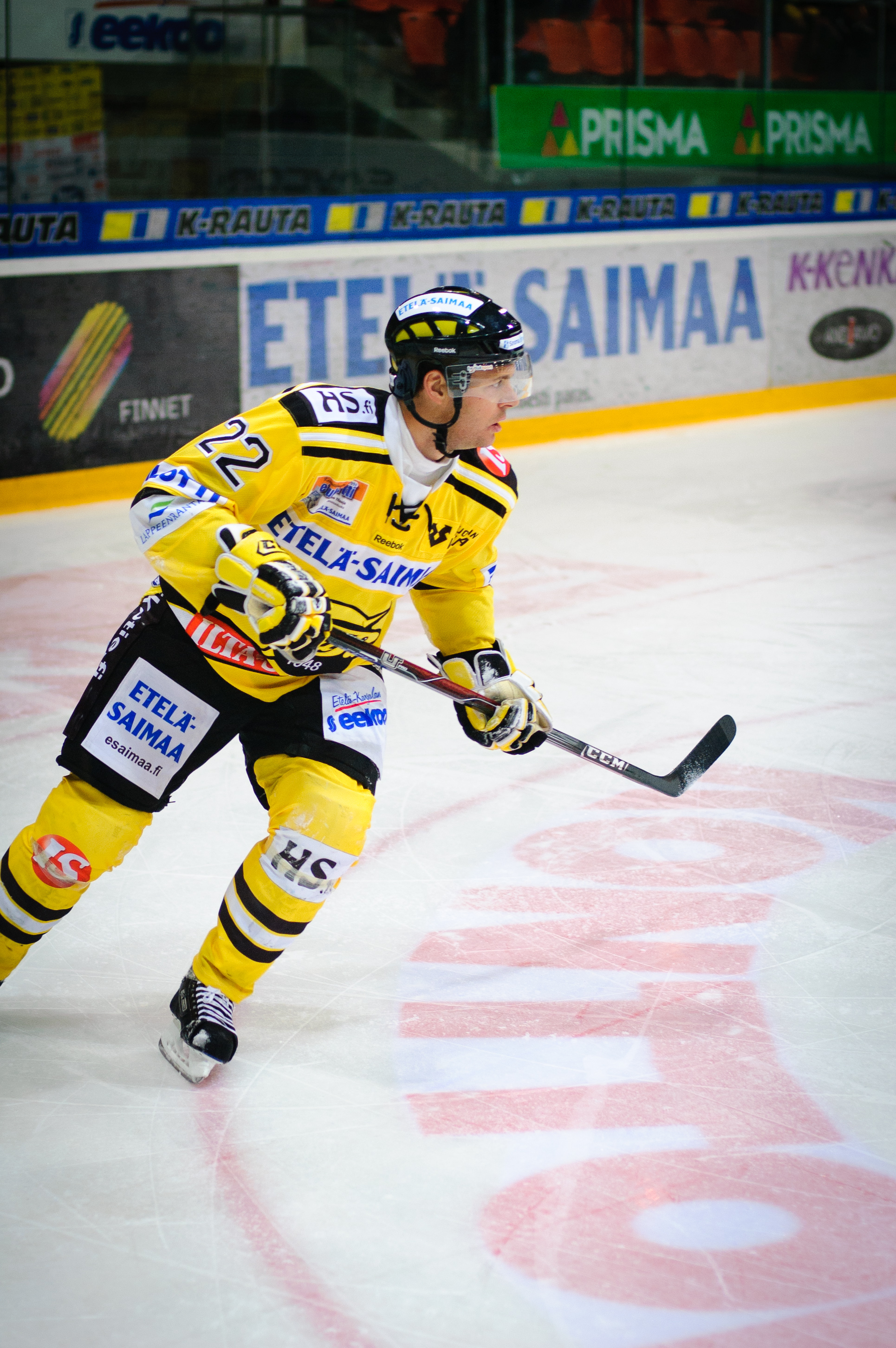 Canadian ice hockey player Dale McTavish playing for SaiPa Lappeenranta against Tappara Tampere in the Finnish SM-liiga in Lappeenranta, Finland.